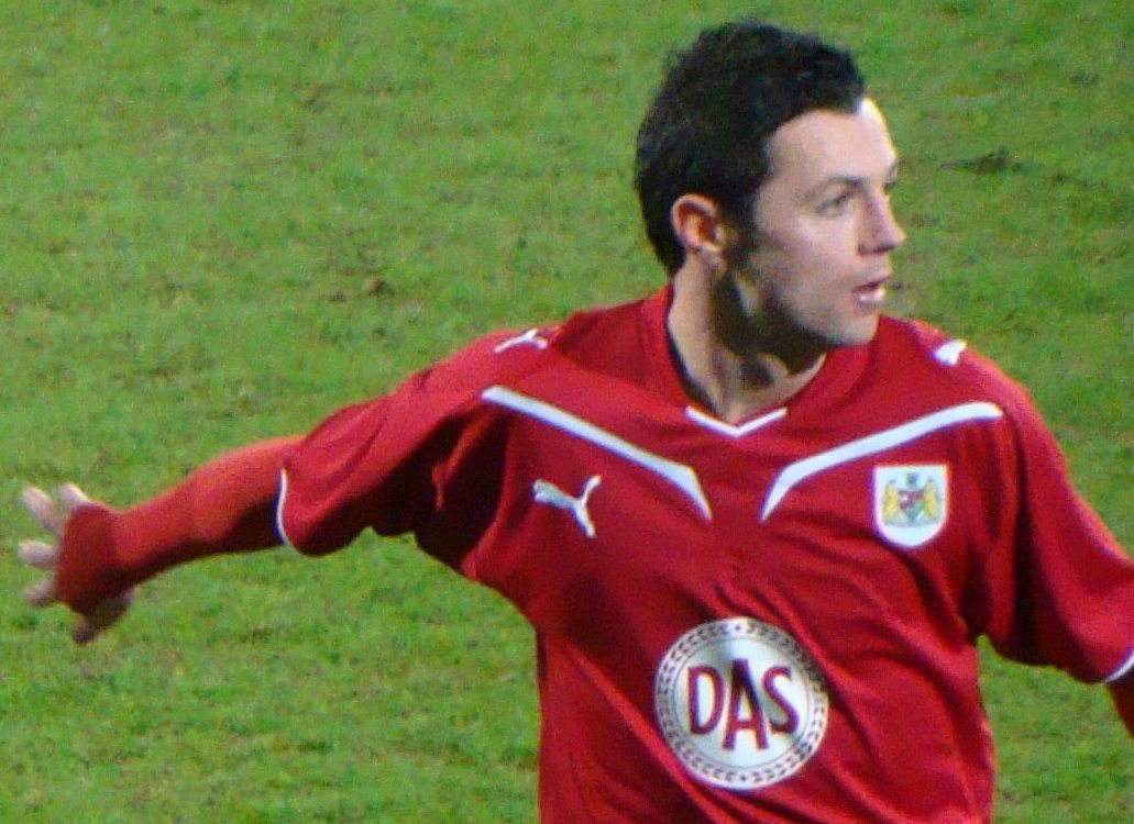 Ivan Sproule cropped from, 19/01/10 Cardiff City V Bristol City, FA Cup 3rd Round. Cardiff City Stadium, Cardiff, Wales